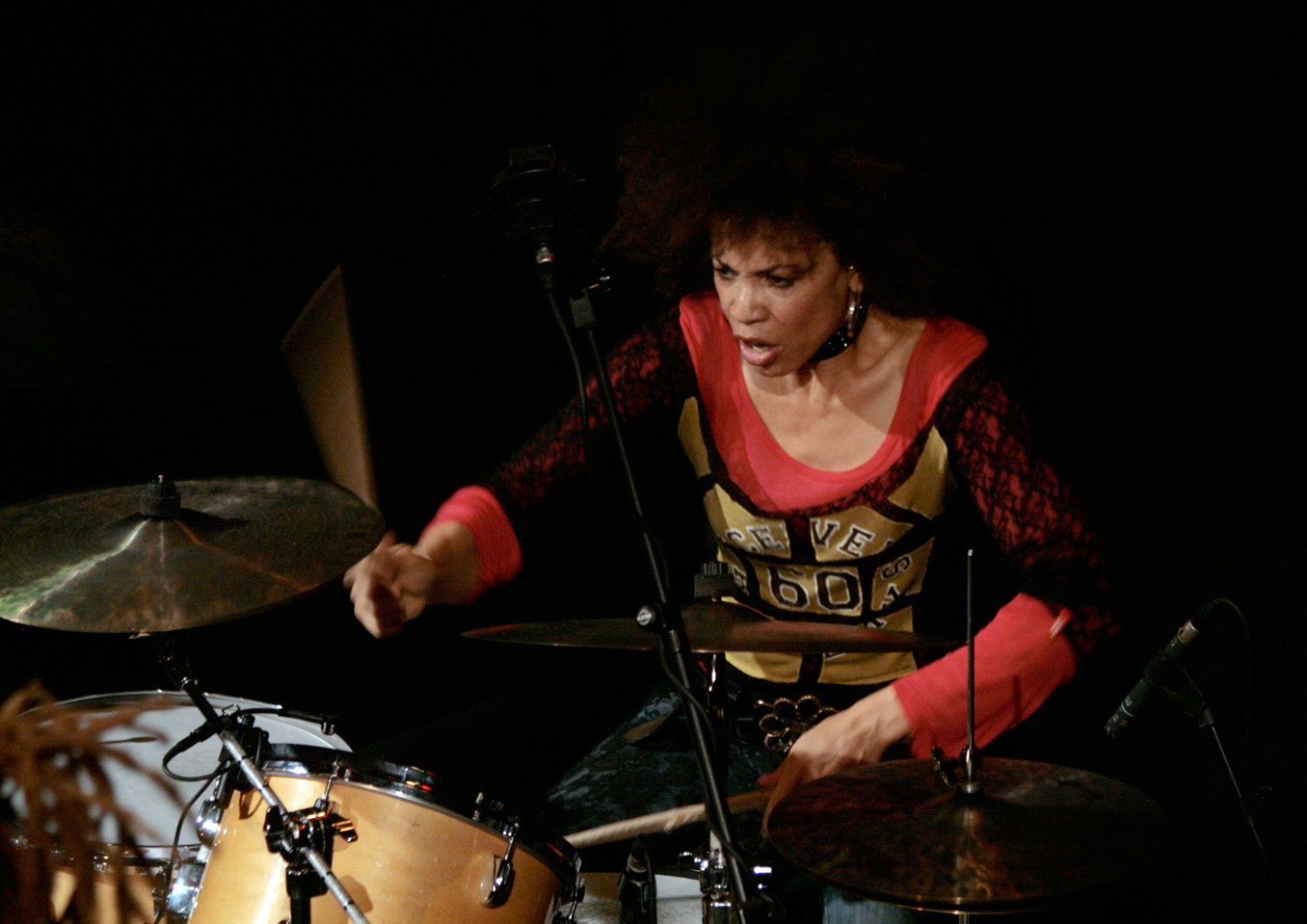 Cindy Blackman; concert with SociaLibrium at the jazz club Porgy & Bess in Vienna